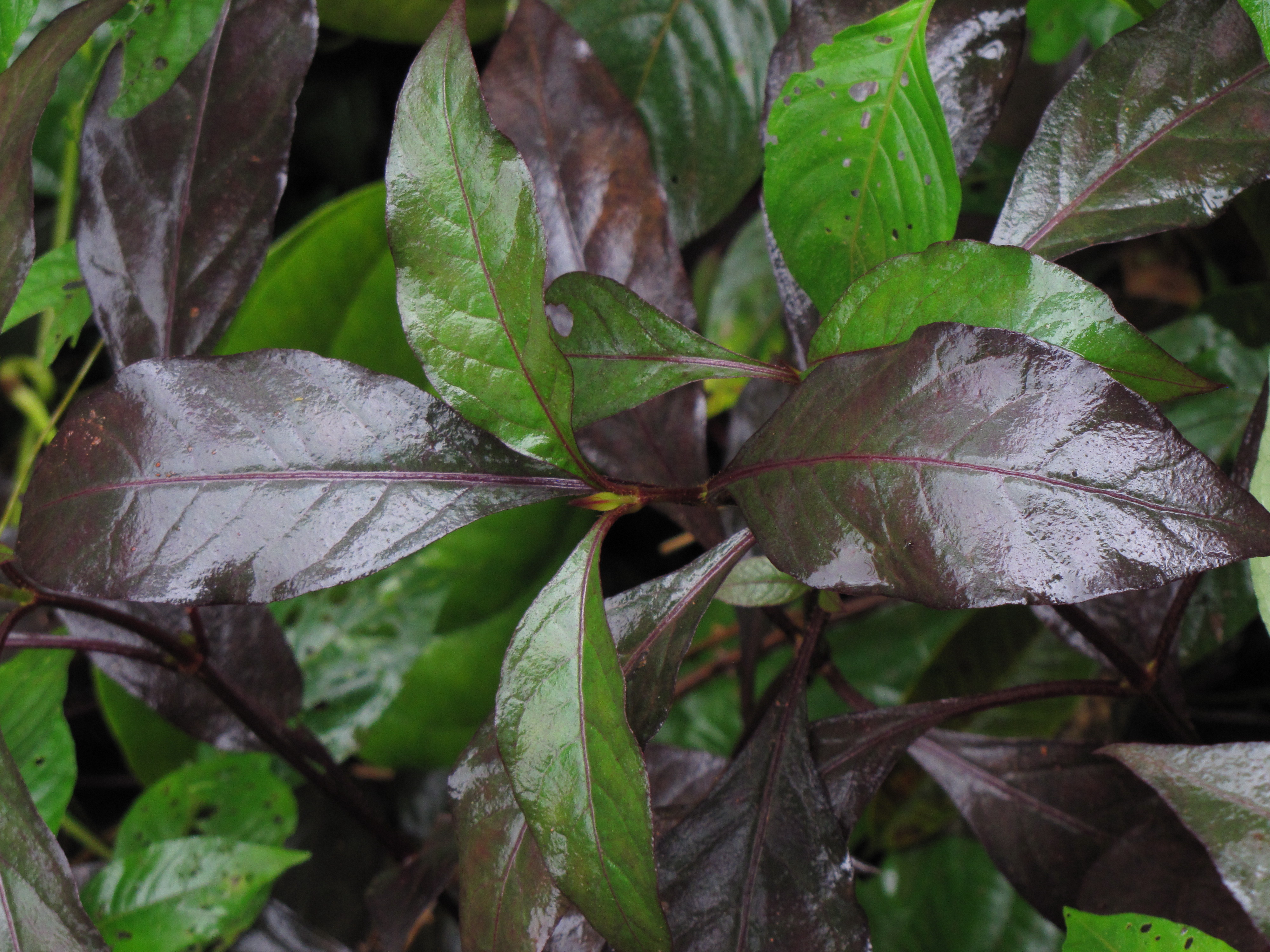 A plant which uses for the sudden relief and cure of wounds.